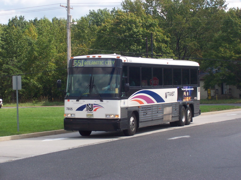 New Jersey Transit MCI D4000N (96" wide D4000) #7805 enters the Avandale (Winslow Township) Park-Ride in Sicklerville, New Jersey on the 551. Note the lack of tapering by the driver's window.